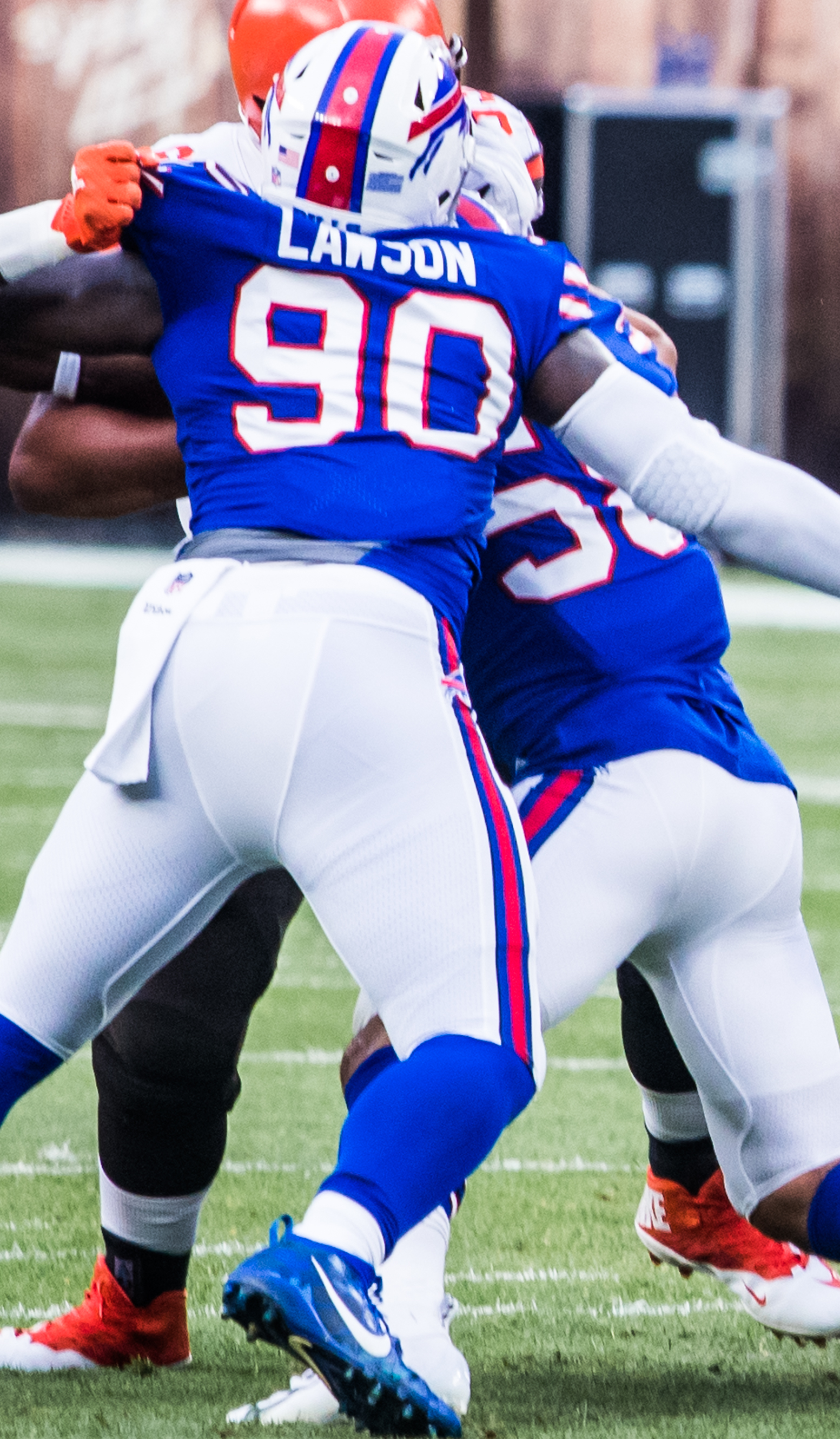 Cleveland Browns vs. Buffalo Bills